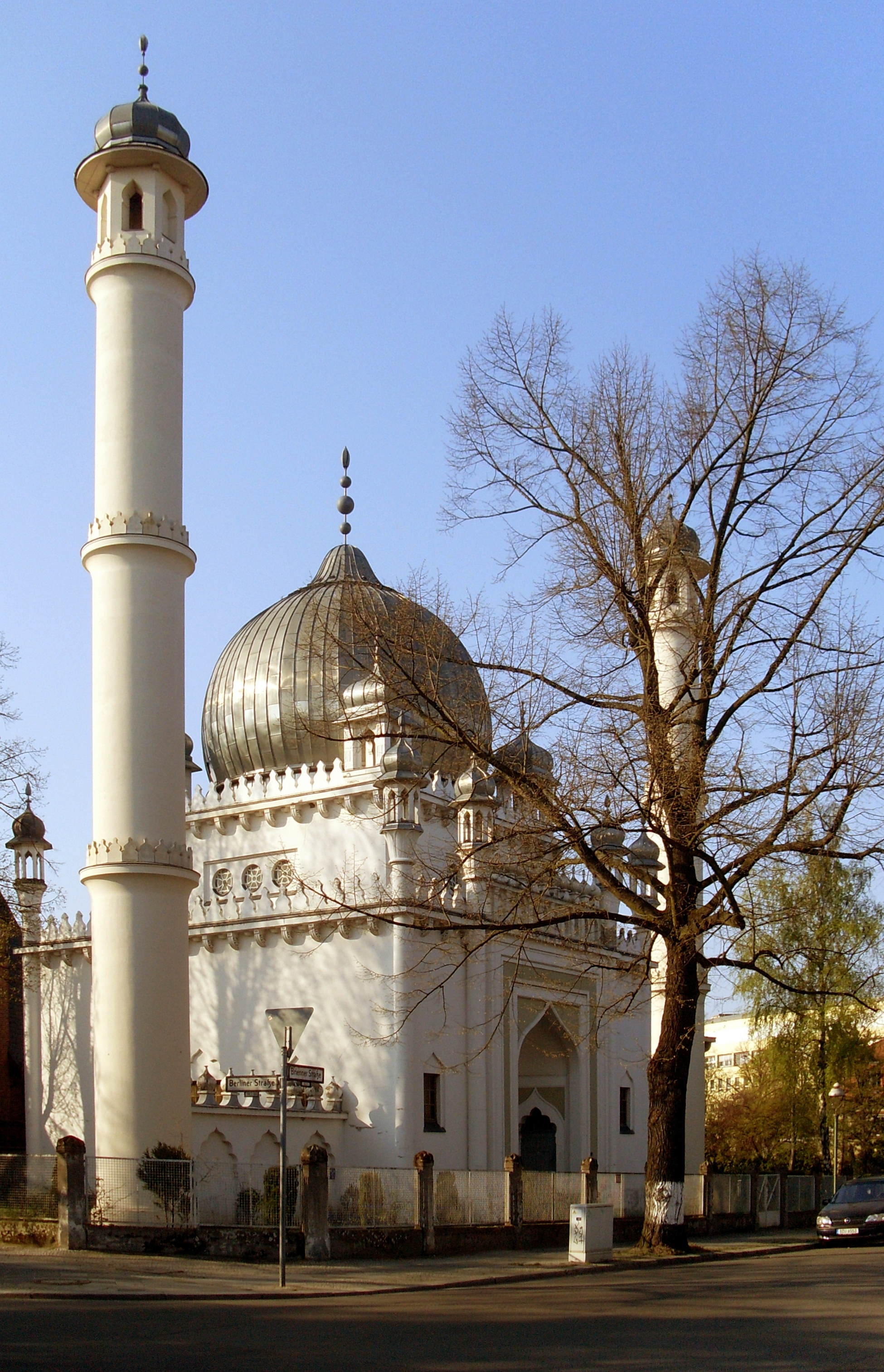 Wilmersdorfer Mosque in Berlin established by Ahmadiyya Anjuman Ischat-i-Islam Lahore (AAIIL); Brienner Straße 7-8, 10713 Berlin